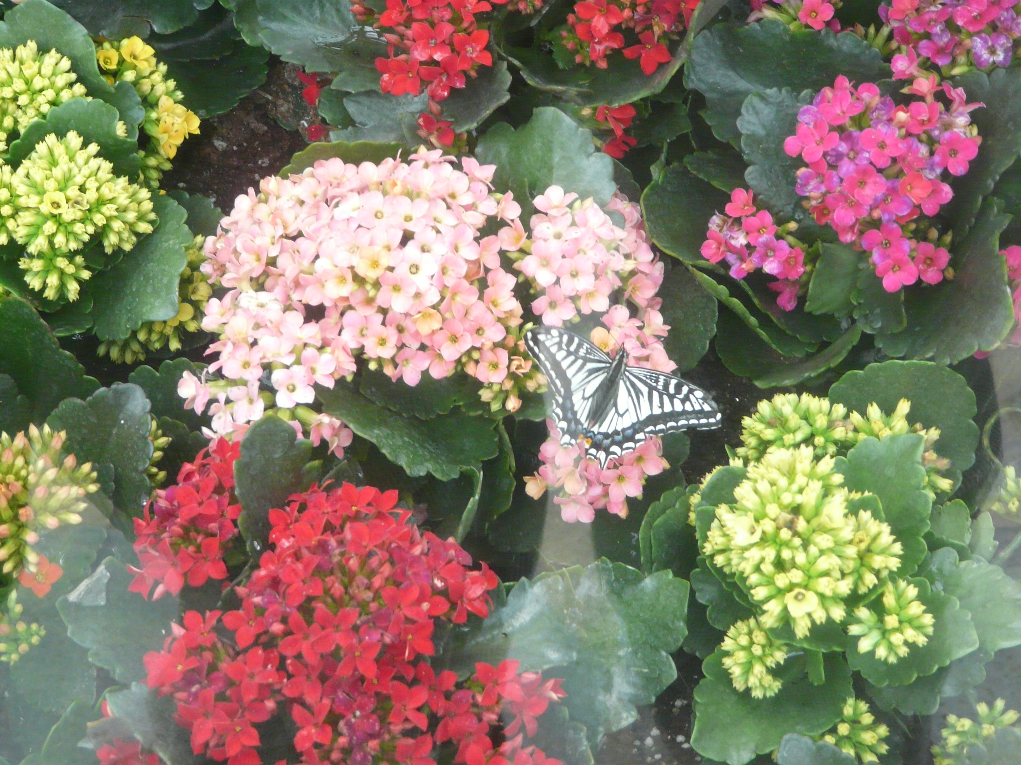 Photos from the Hampyeong Butterfly Festival, Korea.